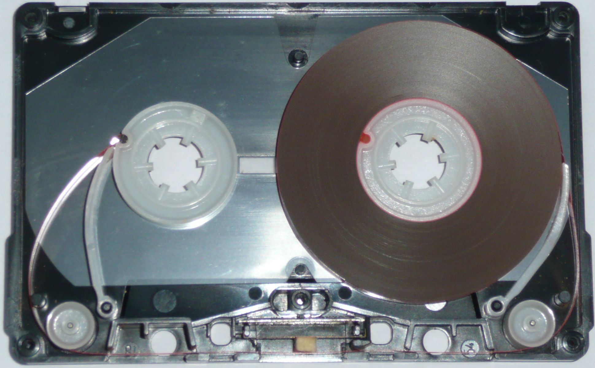 Inside a cassette